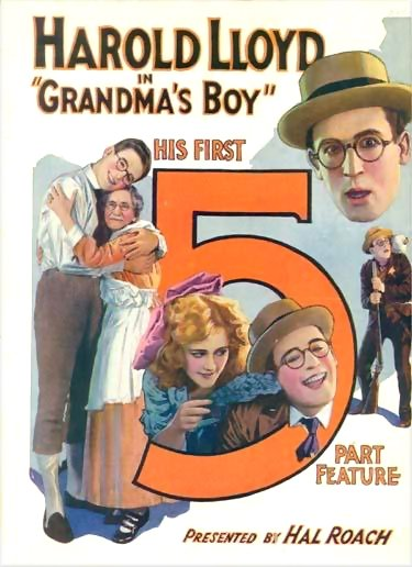 Poster for 1922 Harold Lloyd film Grandma's Boy (1922).